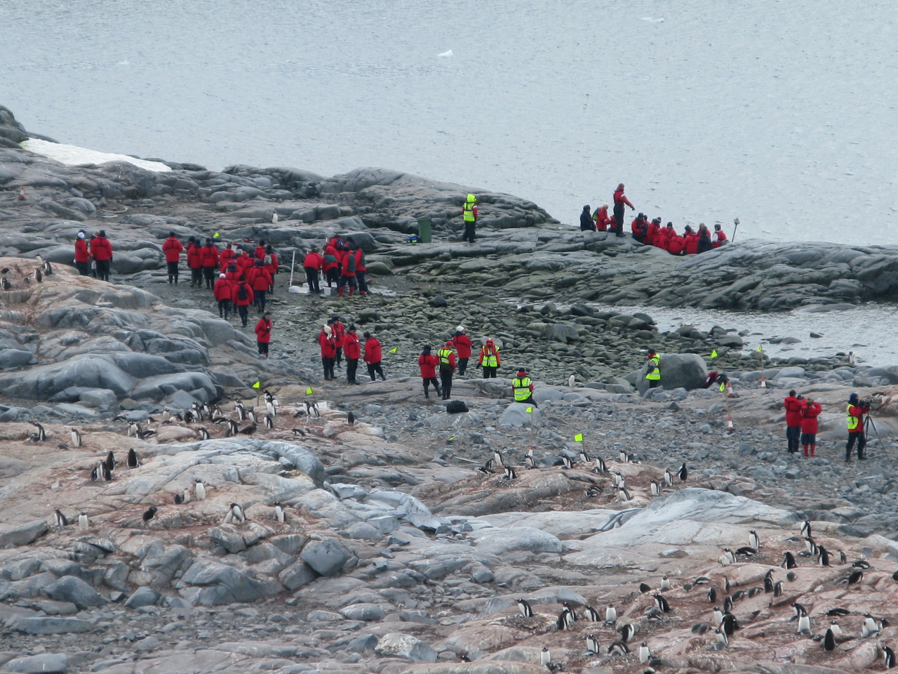 Tourism in Antarctica 2009 - Cuverville Island - Peninsula Antarctica